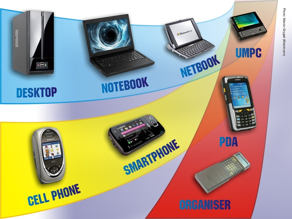 Evolution Directions of Mobile Device